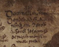 Except from Trinity College Dublin MS 1339, page 39 (the Book of Leinster) concerning the entries for Domnall mac Murchada (died 1070) and Donnchad mac Domnaill Remair (died 1089), kings of Leinster.